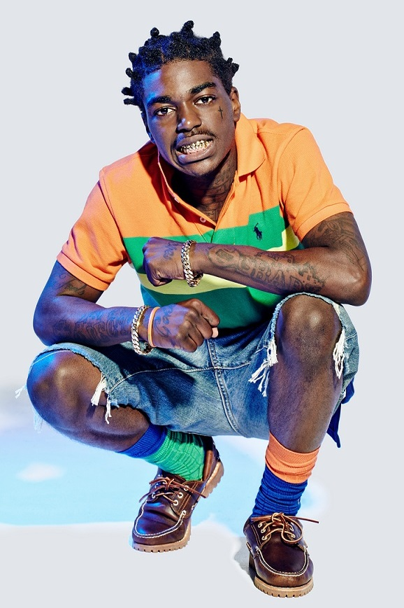 Press photo of Kodak Black from Atlantic Records.